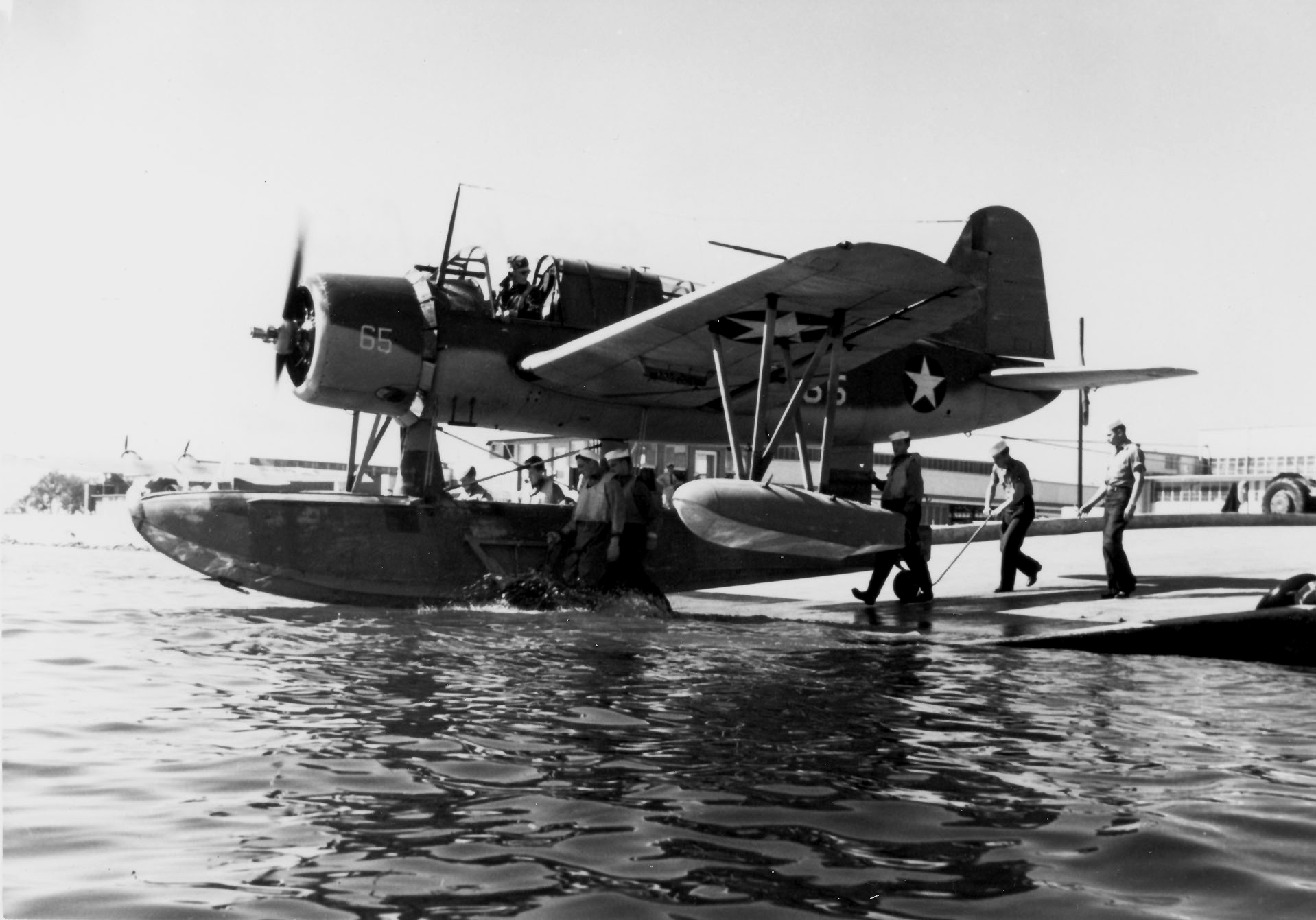 A U.S. Navy Vought OS2U Kingfisher is launched from the seawall at Naval Air Station Jacksonville, Florida (USA) in 1942.